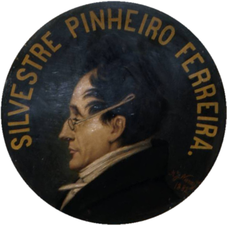 Silvestre Pinheiro Ferreira (1769-1846), Portuguese publicist and philosopher. Portrait on the ceiling of the Great Hall of the City Hall, in Lisbon.